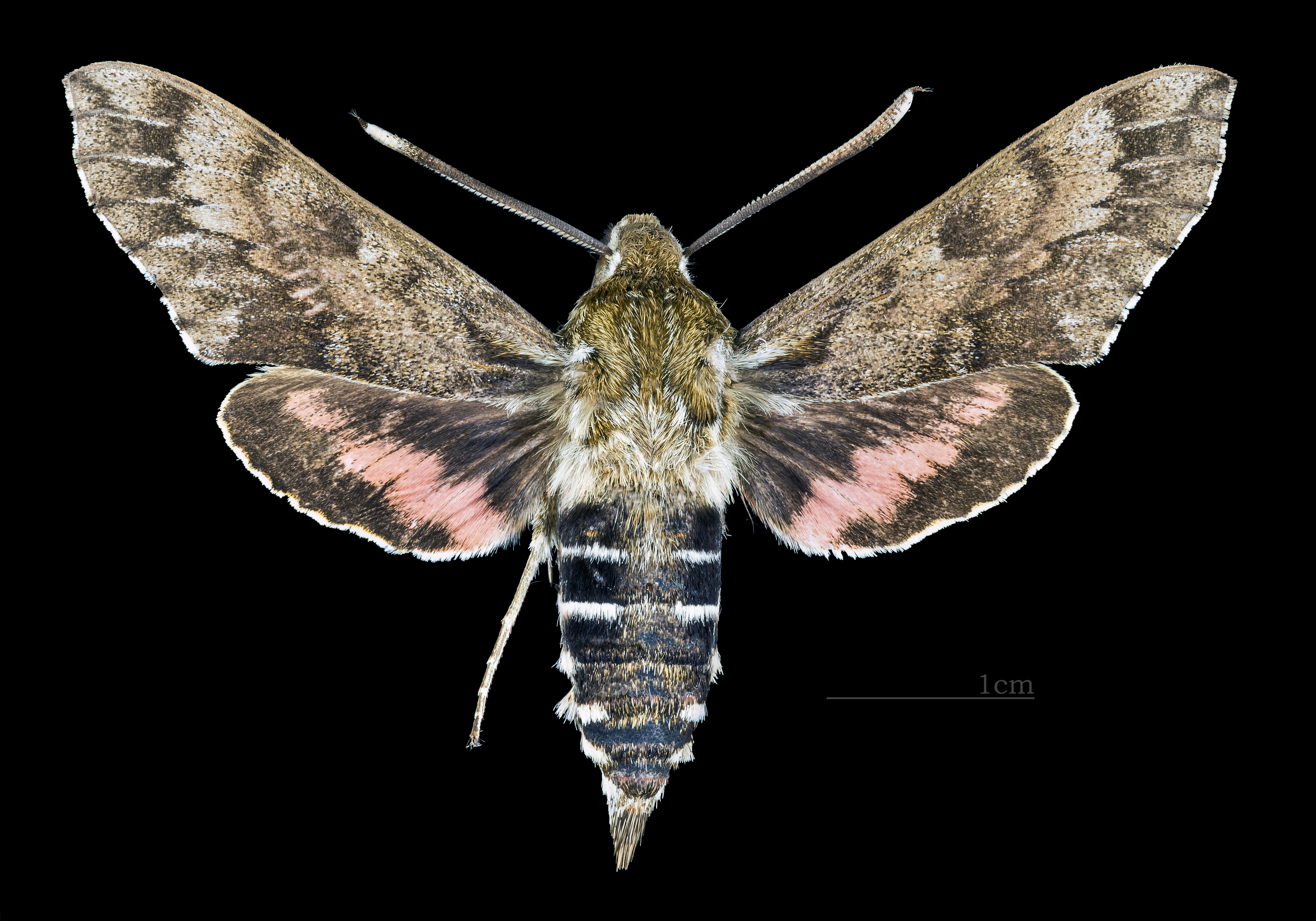 Perkin's sphinx - Dorsal side